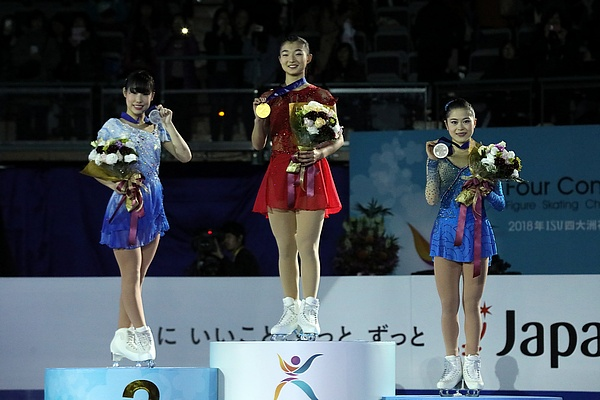 Photos – Four Continents Championships 2018 – Ladies (Medalists)